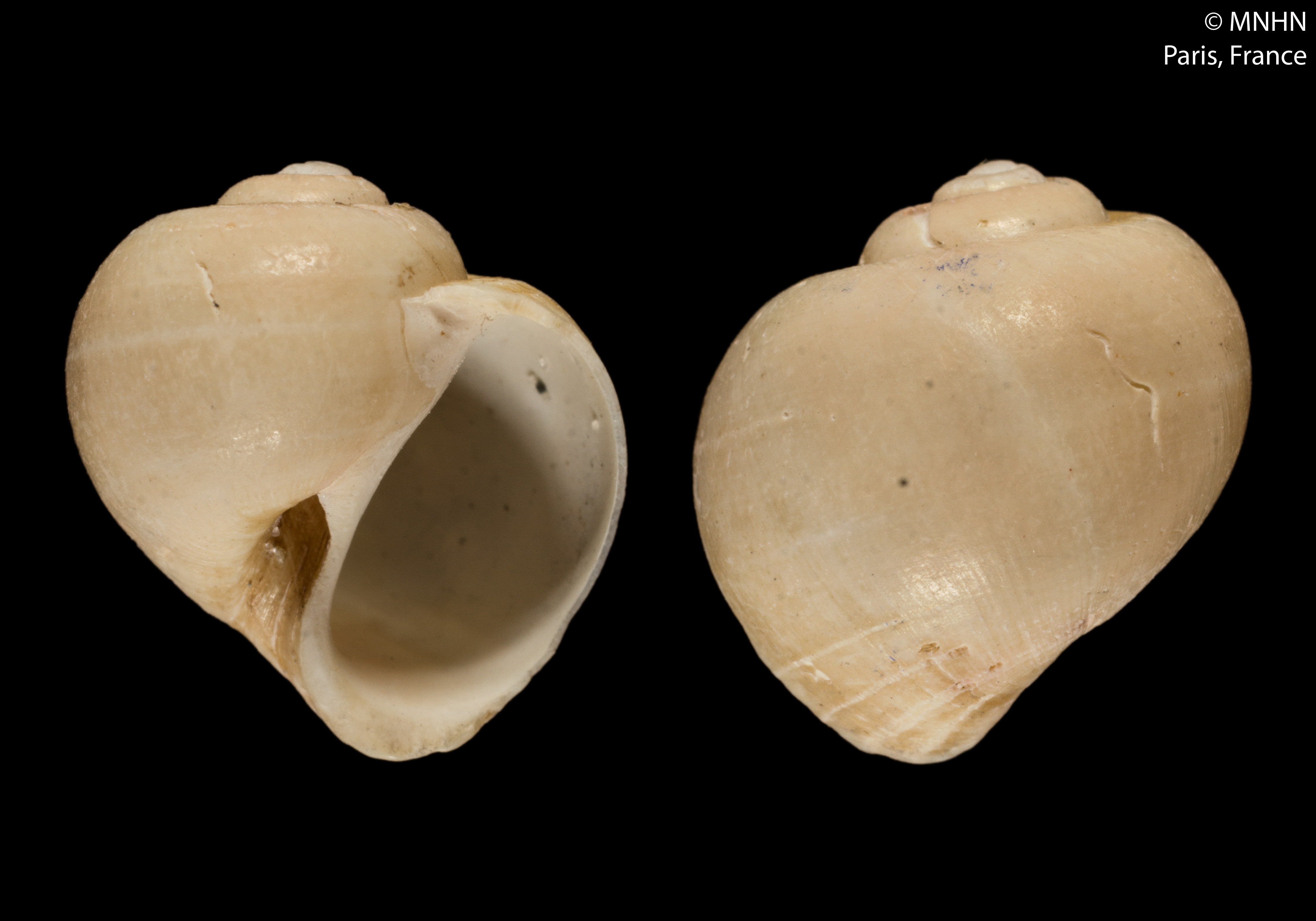 PRESERVED_SPECIMEN; Natica recognita Mabille & Rochebrune, 1899; Type status: SYNTYPE; Identified by: N/A; Individual count: 3; Event date: N/A